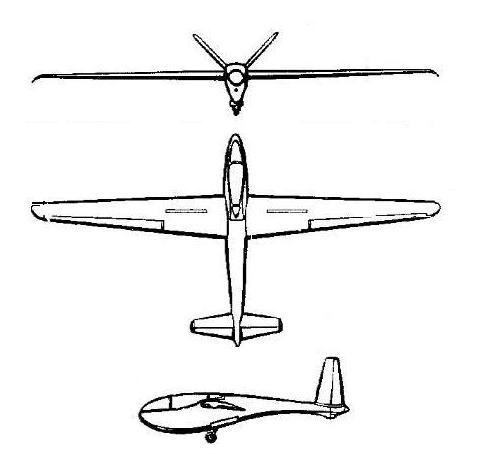 Glider A-13, Antonov Design